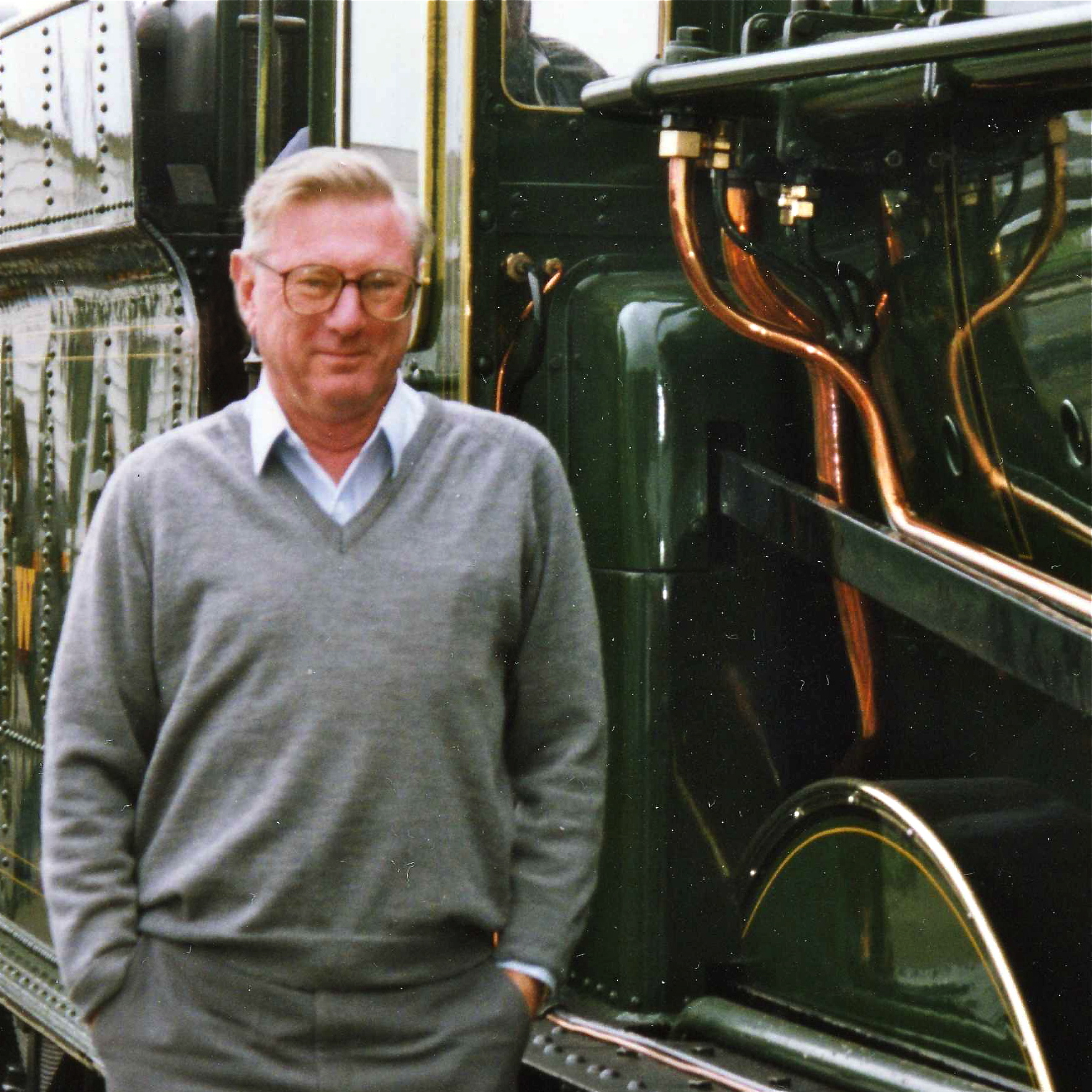 Colour photograph of man in grey sweater standing close to dark green steam locomotive (Great Western Railway King Edward I), with copper pipes showing on side of locomotive.